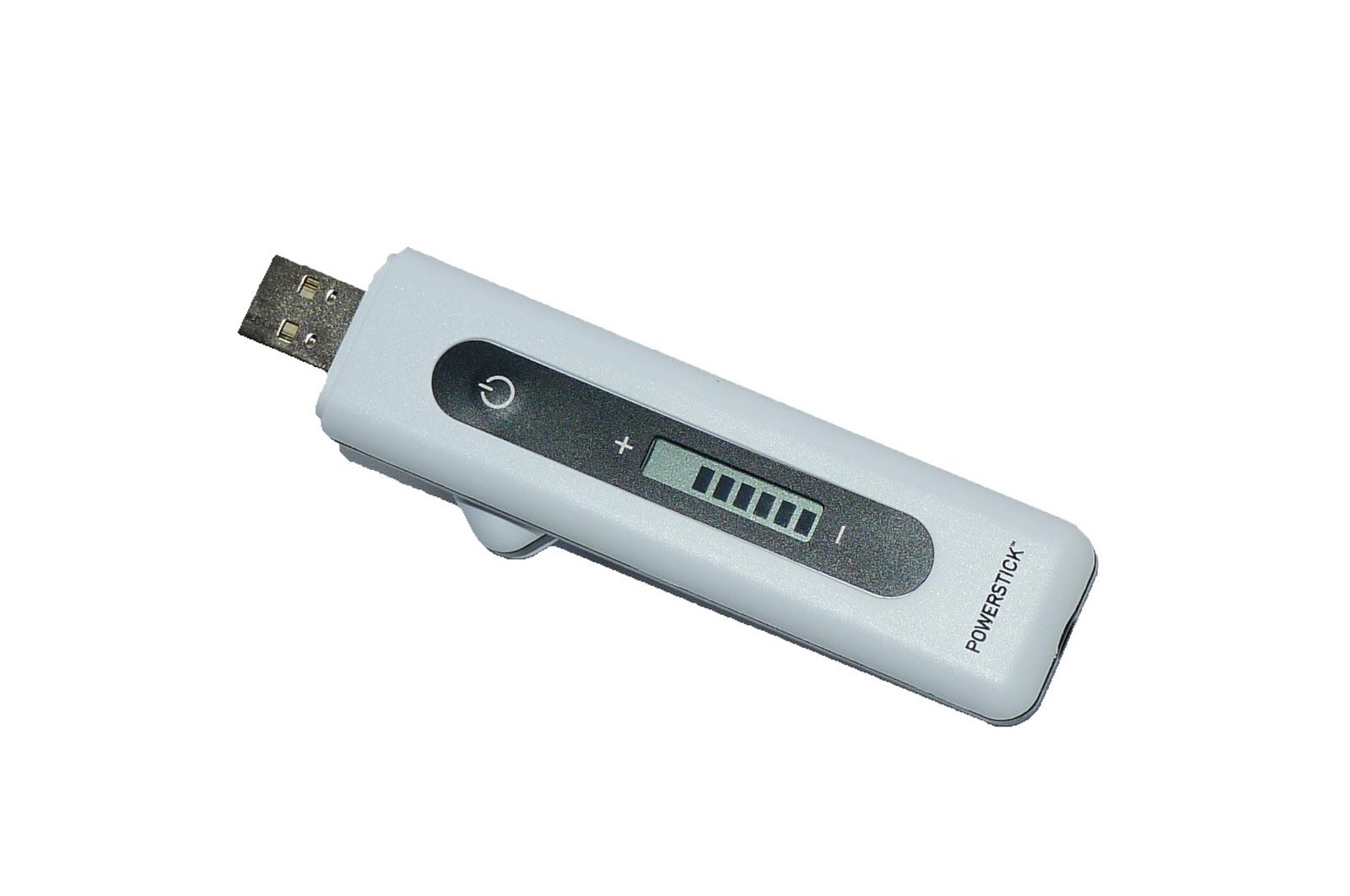 "With all the devices we carry, having a little extra juice available is a must. And you can store your files on it, too." -- Colin Dixon, TDG Research Intel Free Press story: Holiday Gift Guide: Tech Experts' Top Picks. ECOSOL